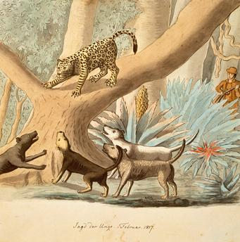 Jaguar hunting with dogs (Old Brazilian Mastiff with cropped ears) in Brazil. February, 1817